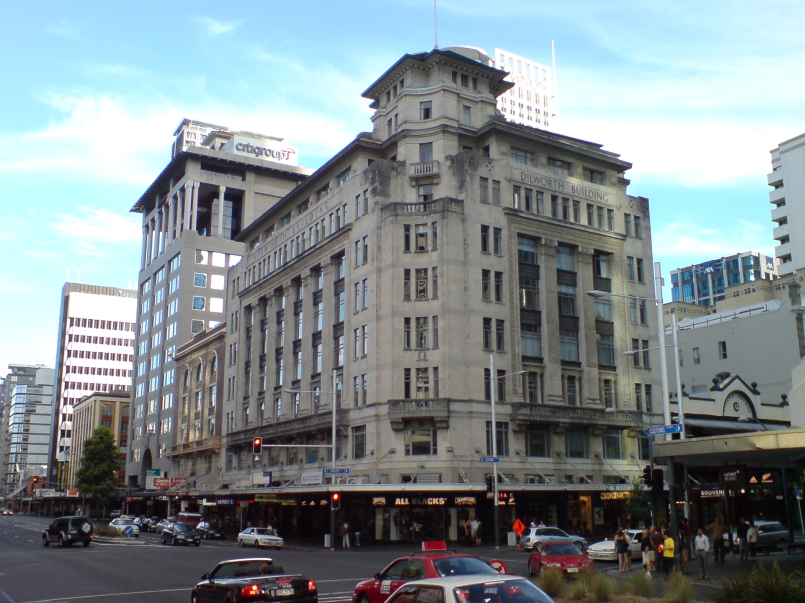 The Dilworth Building on the corner of Queen Street and Customs Street, Auckland City, New Zealand. Seen here from the north-west (view along Customs Street), this building was once supposed to be one half of a 'gateway' to the city, but the mirroring building opposite was never built.